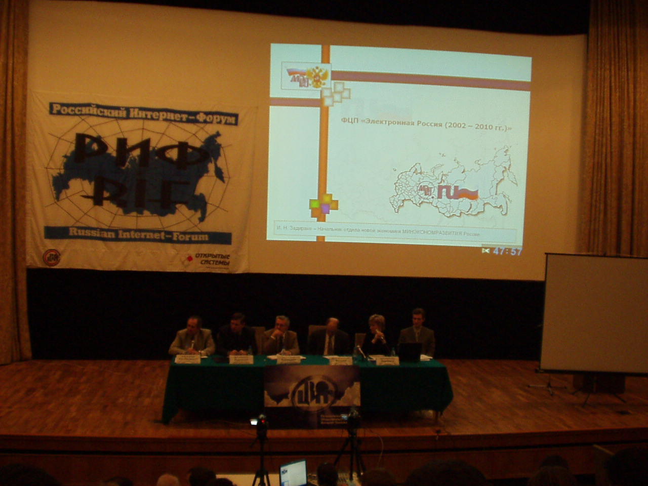 Representatives of the Ministry for Economic Development and Trade of the Russian Federation inform the participants of Russian Internet Forum (RIF) — 2005 on the "Electonic Russia" federal targeted-purpose programme